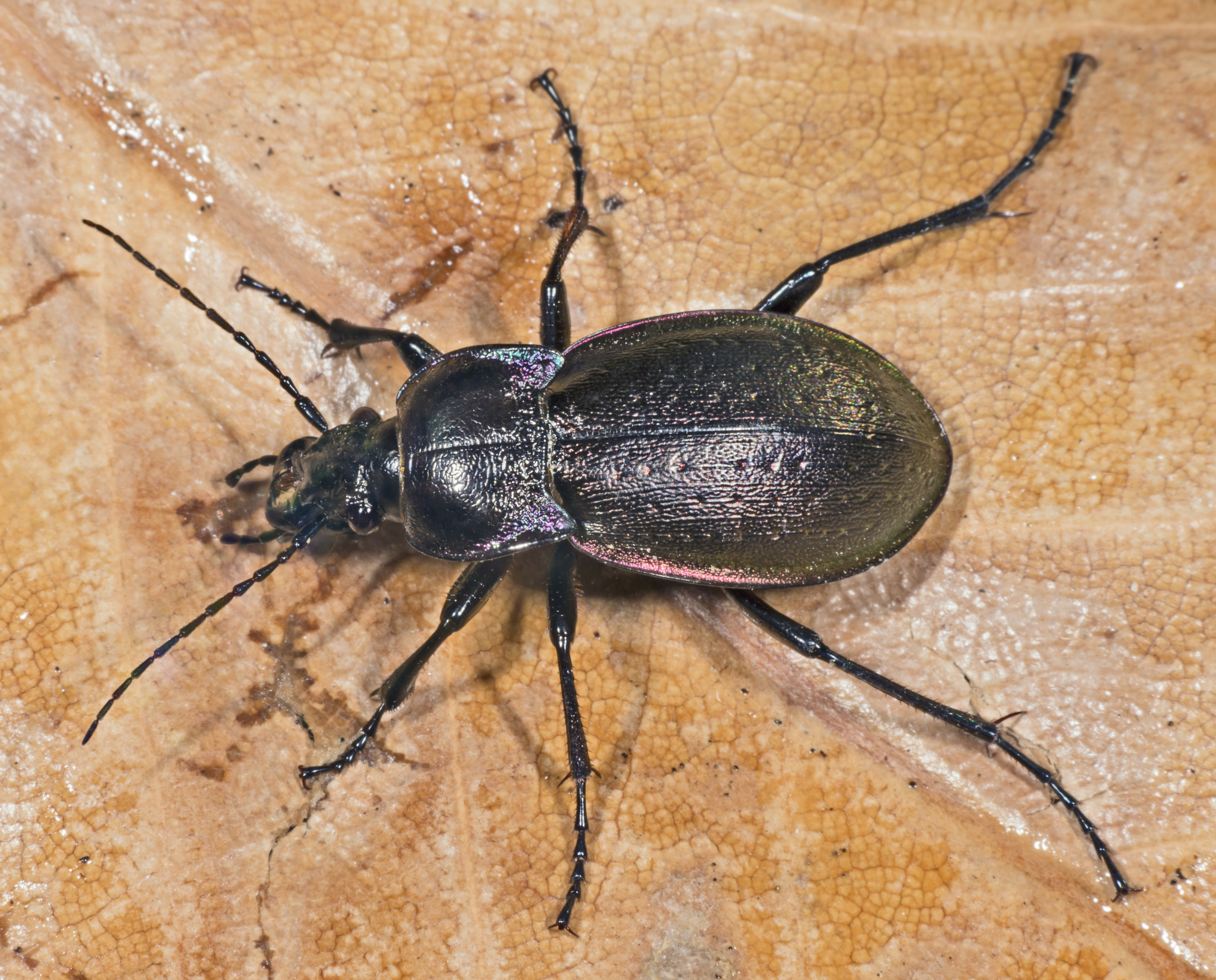 Wood Carabid.